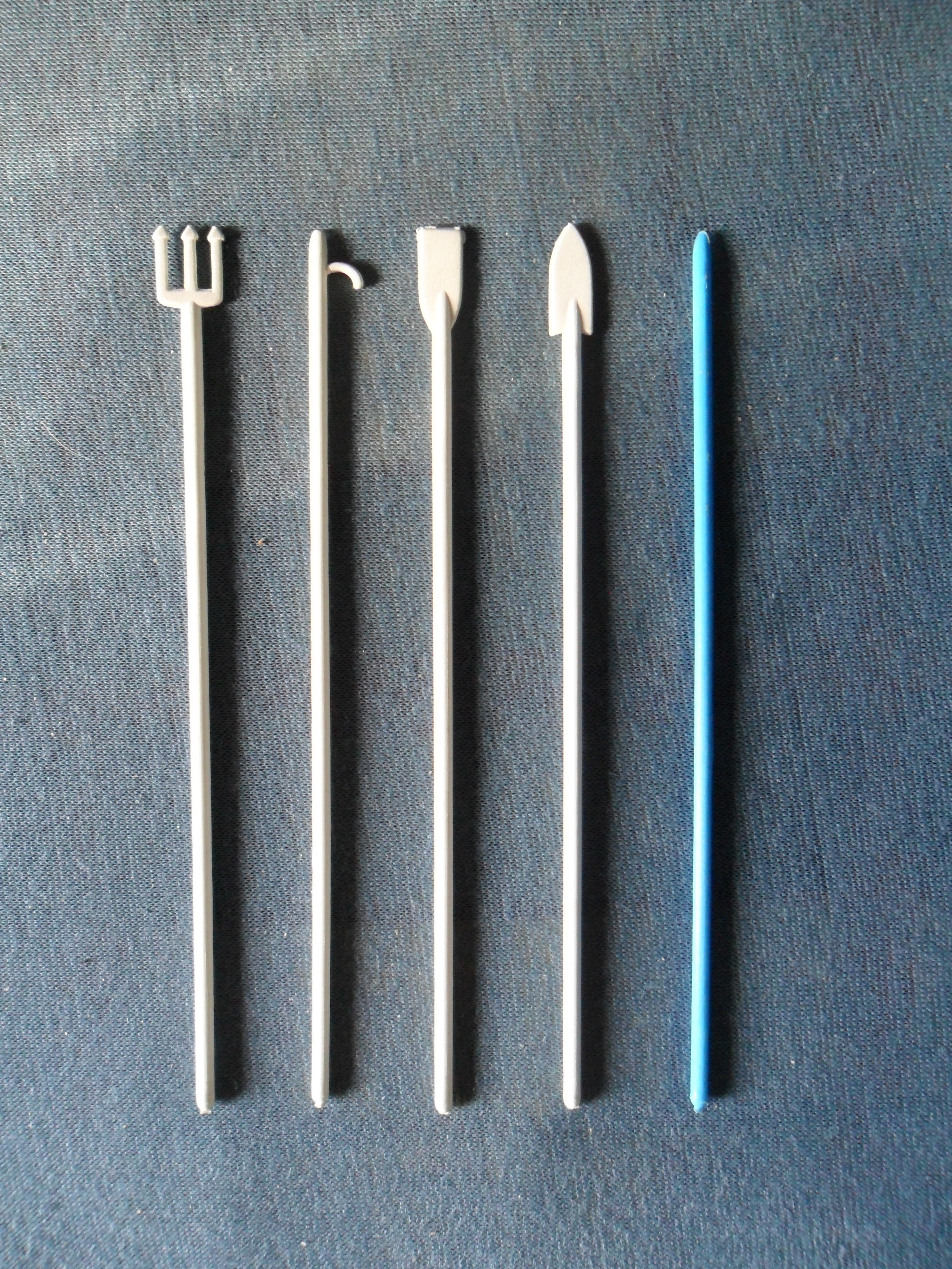 Pick-up sticks